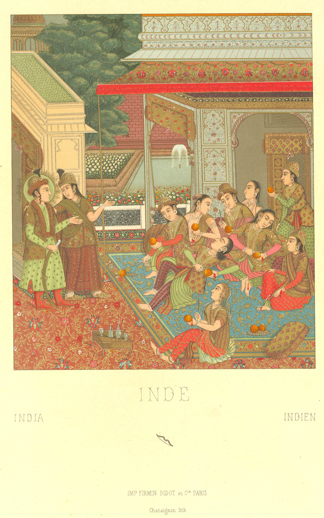 Miniature Mughal painting depicting the tale of Yusuf and Zulaikha according to Racinet (1876 ed.)